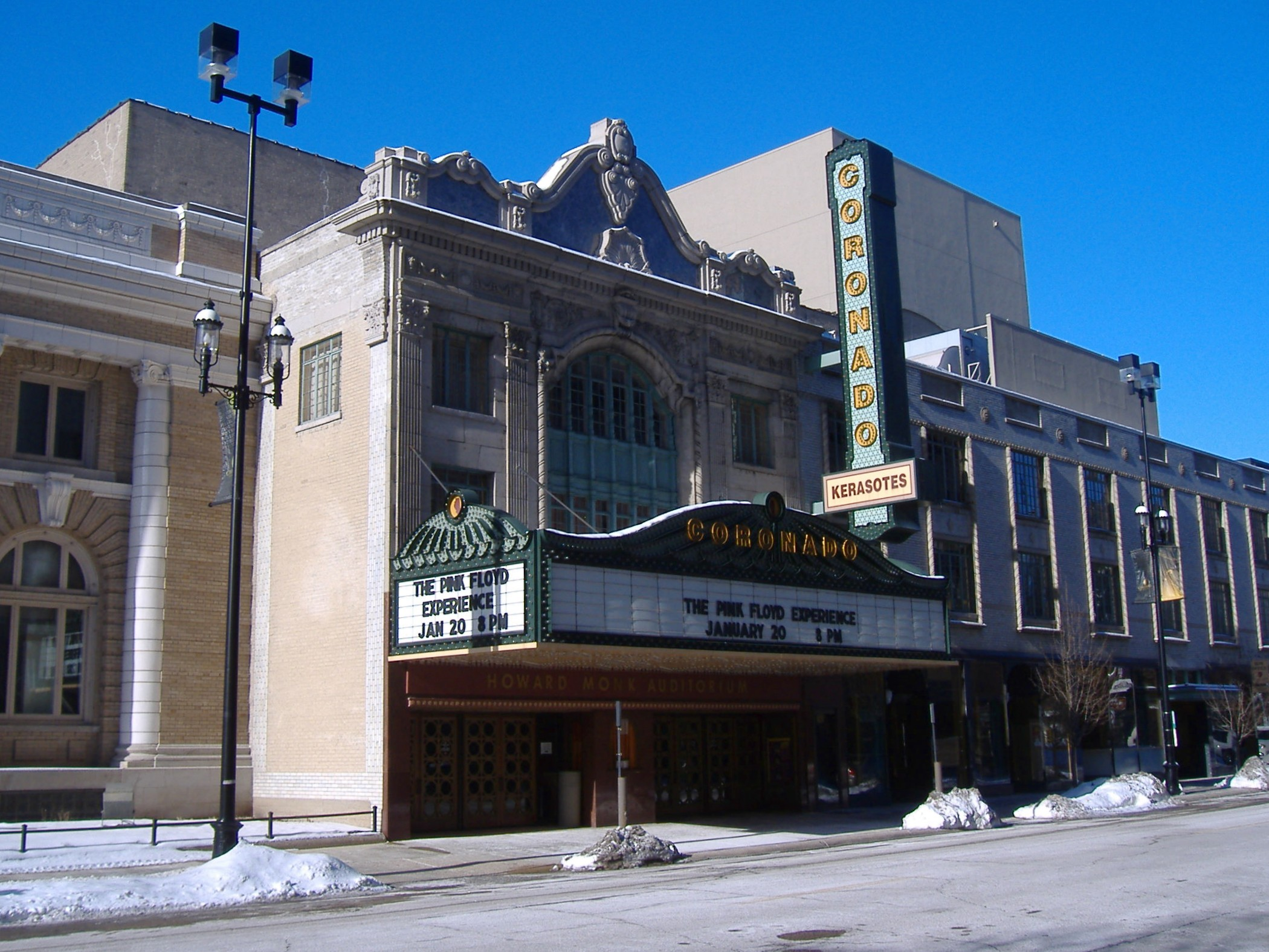 Coronado Theater in Rockford, Illinois, USA